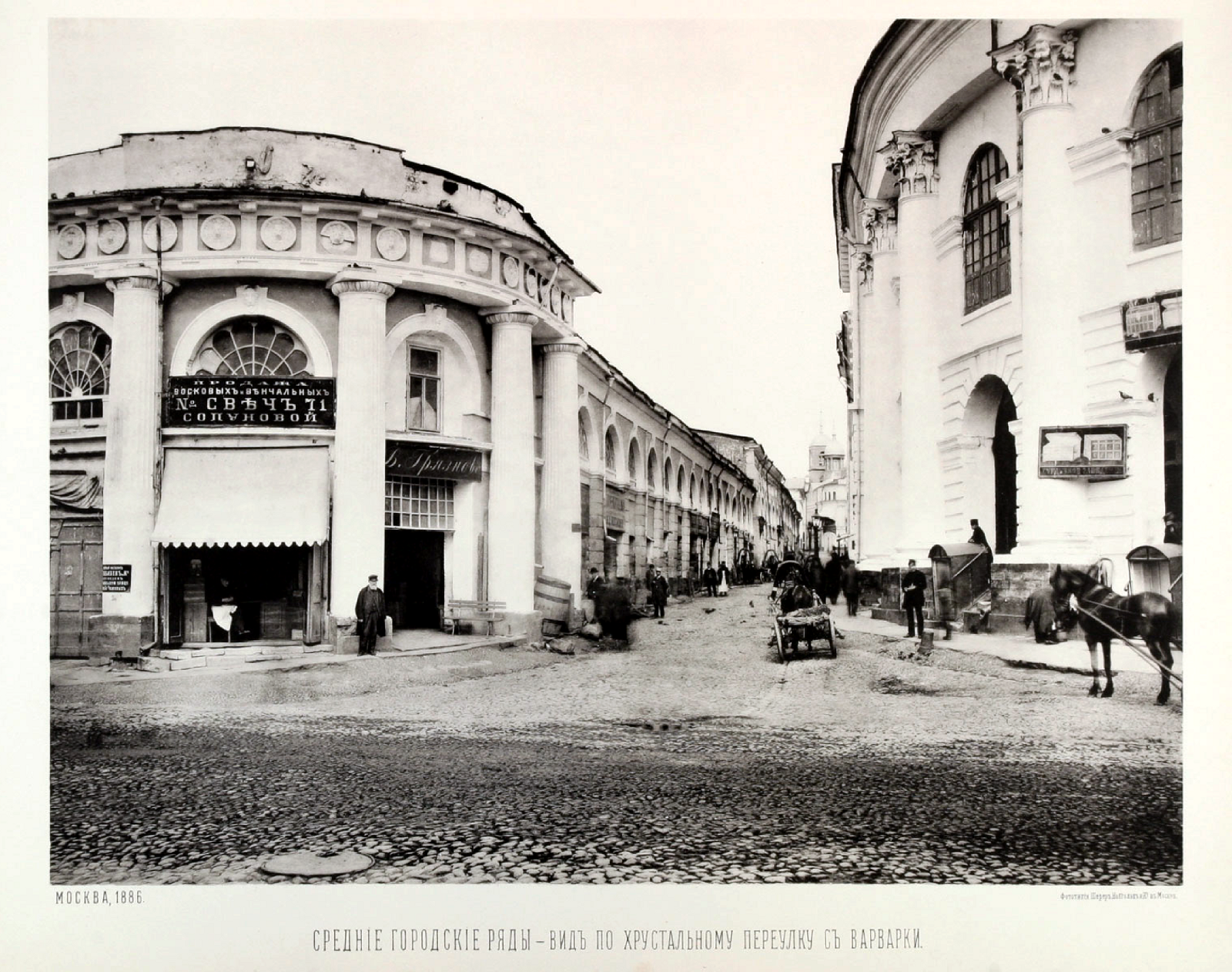 Middle Trade Rows in Kitai-gorod, Moscow. Photographs taken in 1886, prior to the enactment of an ordinance that condemned the whole area to demolition. Middle Trade Rows, built by Joseph Bove in 1810s, were demolished by 1888, and soon replaced by a new and larger shopping building designed by Roman Klein. Plate 29: View along Khrustalny Lane from Varvarka Street (building on the right is the extant Gostiny Dvor).